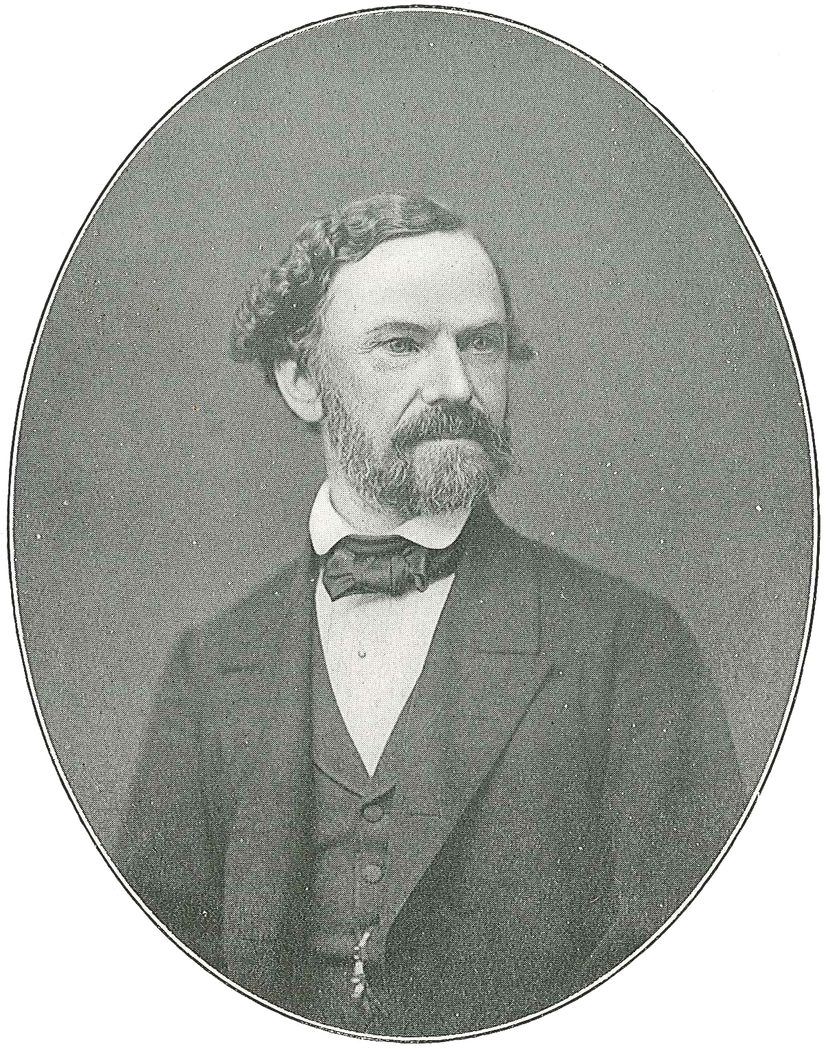 Pehr von Ehrenheim (1823-1918), Swedish nobleman, businessman, minister without portfolio, speaker of the upper house of parliament, member of the Swedish Academy.